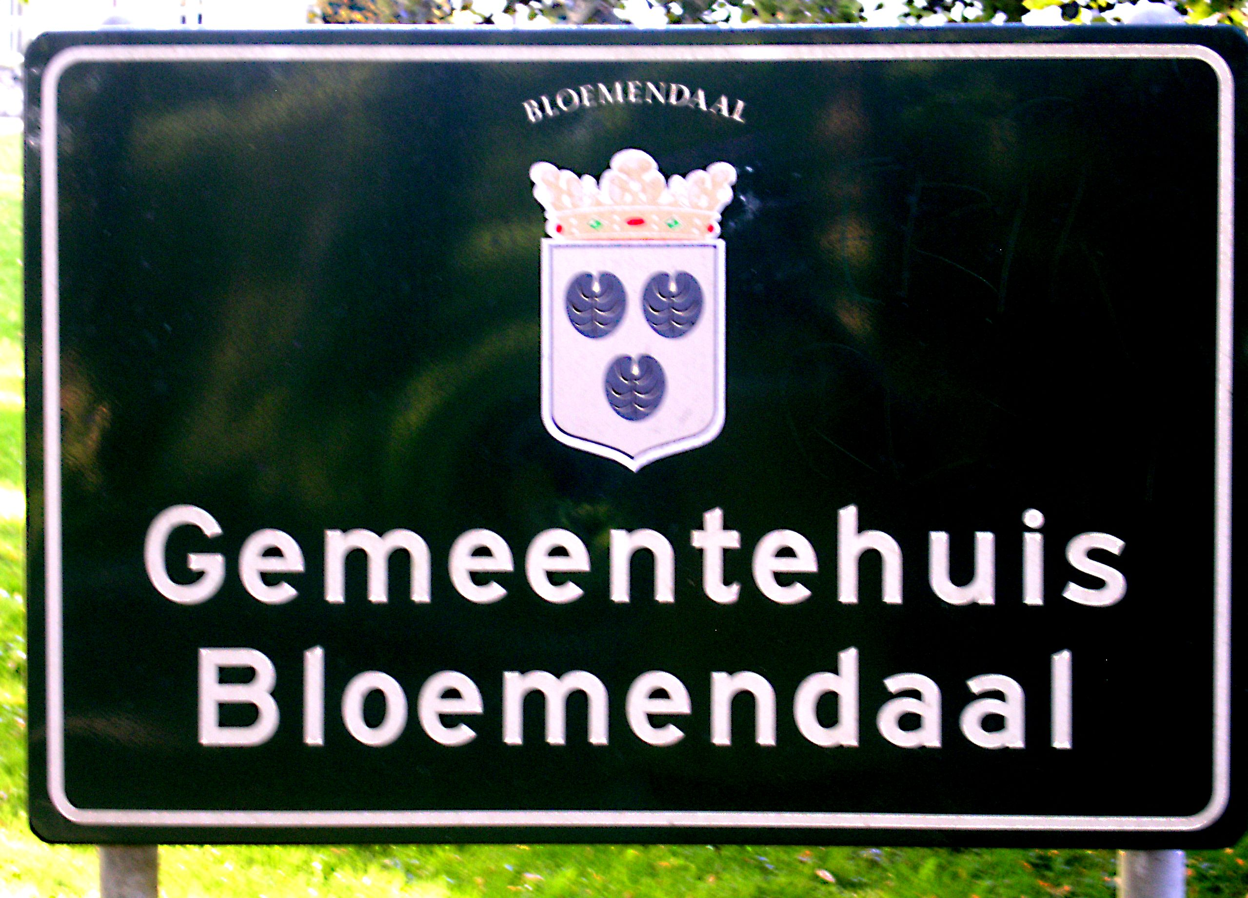 photo of the sign in front of the Bloemendaal town hall.